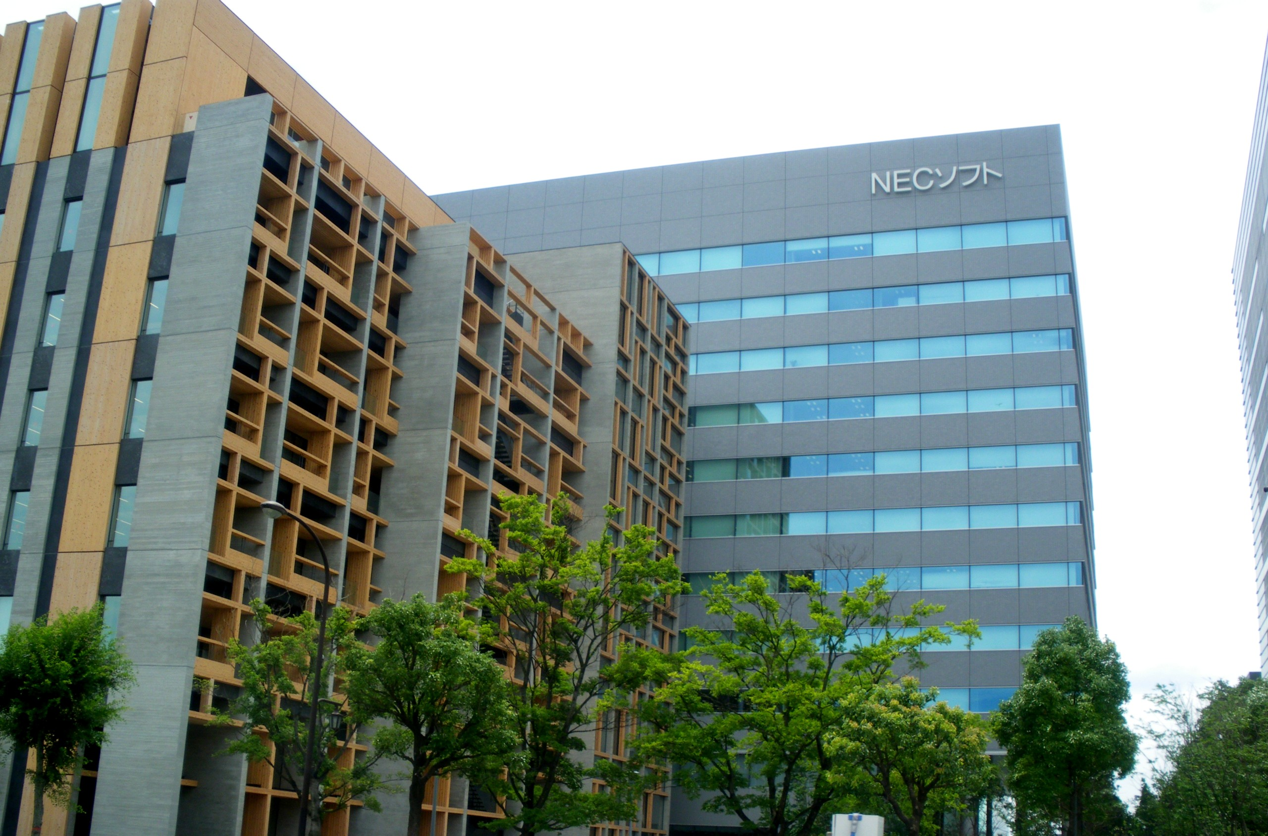 NEC Soft Head office (Shinkiba, Koto, tokyo)